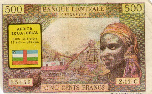 Ecuatorial Africa, bank note from propagande reproduction, observe. Scan form own collection